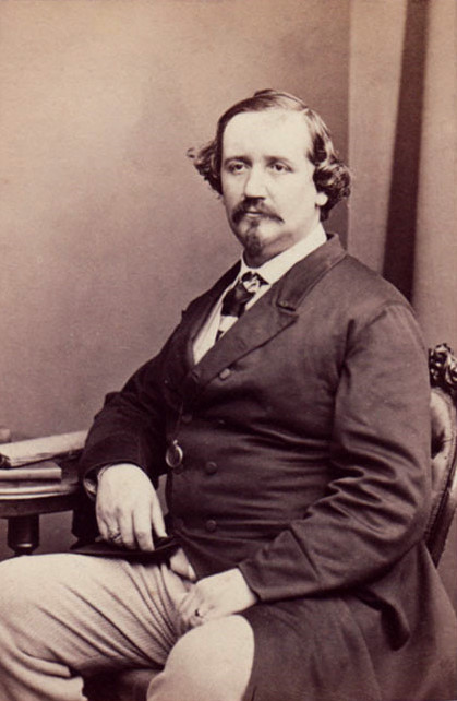 Willoughby Weiss (1820-1867), Carte de visite